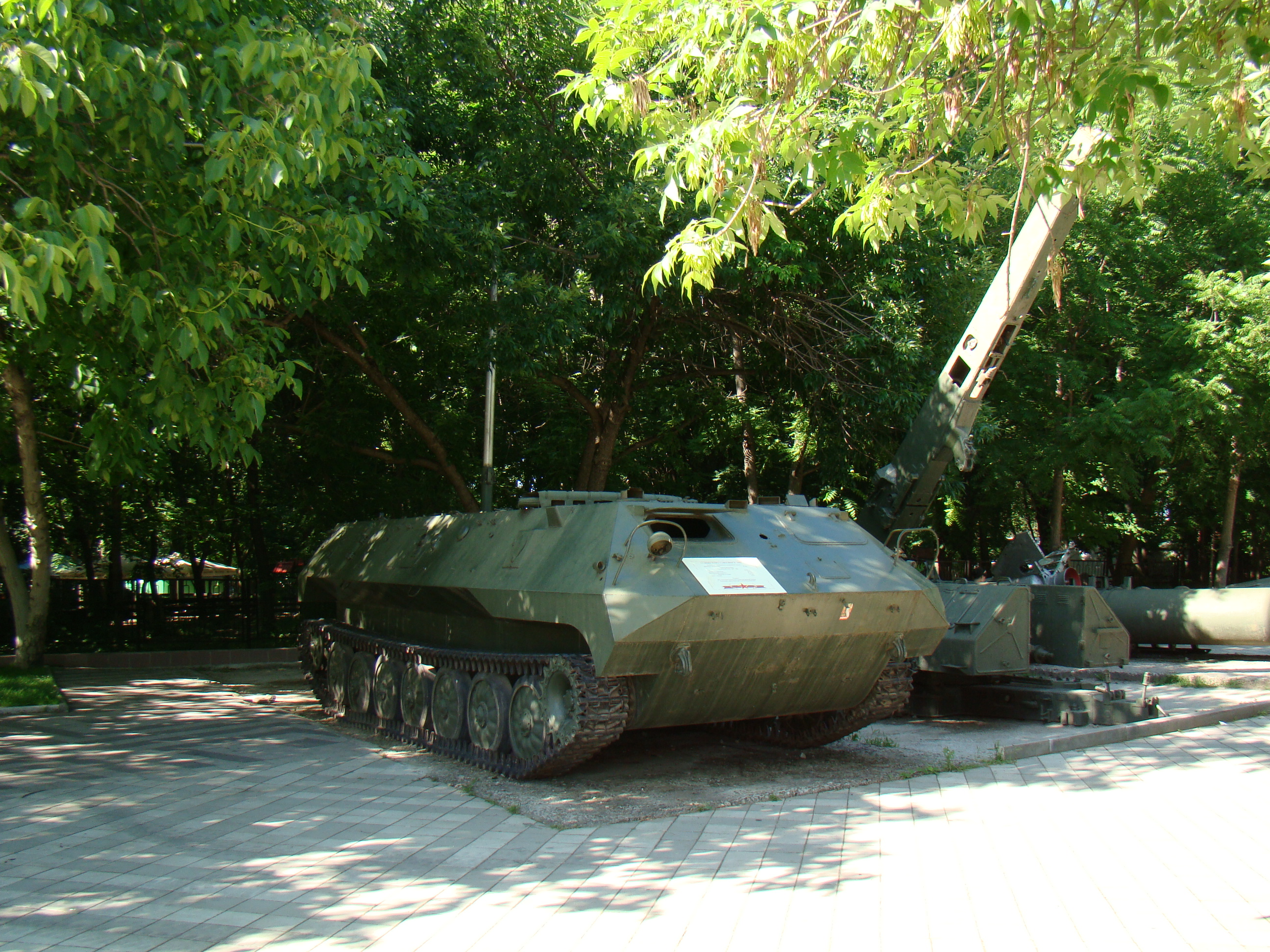 Музей военной техники "Оружие Победы". Парк культуры и отдыха имени 30-летия Победы, Краснодар. This file contains images of museum objects that are included in the Museum fund of the Russian Federation, or images of Russian museums buildings and symbols The Russian Museum Law, article 36, restricts anyone from: using images of museum objects and collections; buildings, museums and sites on museum grounds; and the names and symbols of museums; — on replicated products and consumer goods without authorization by the museum in question. English | русский | +/−